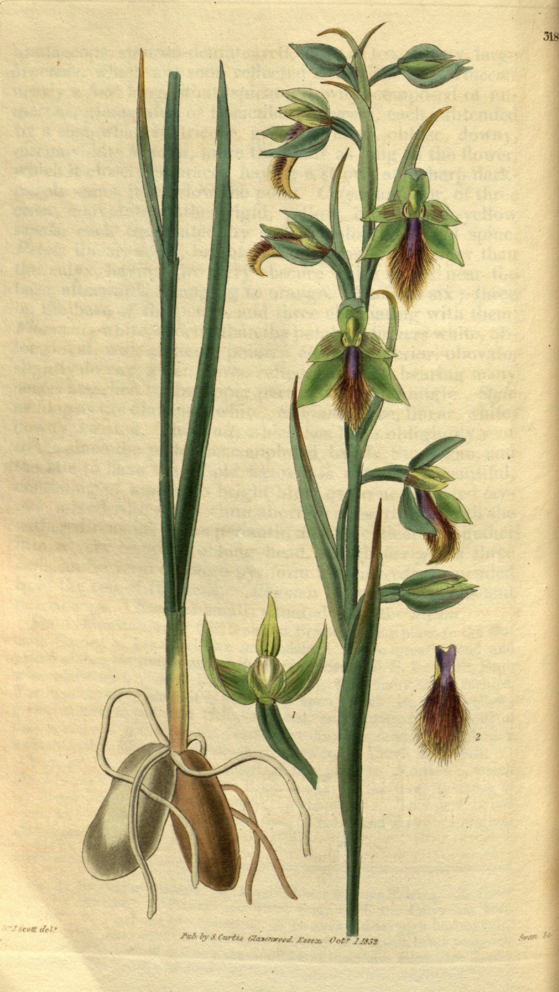 Illustration of Calochilus campestris